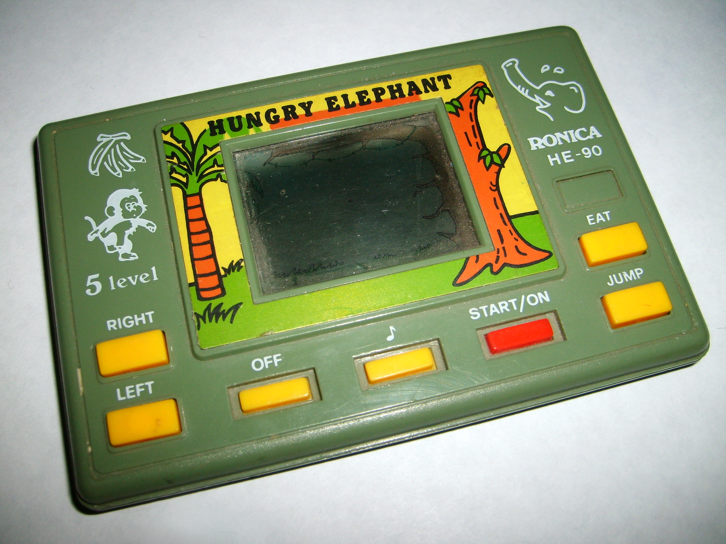 Tronica (aka Ronica) game machine, model HE-90, "Hungry Elephant". 1980s decade.